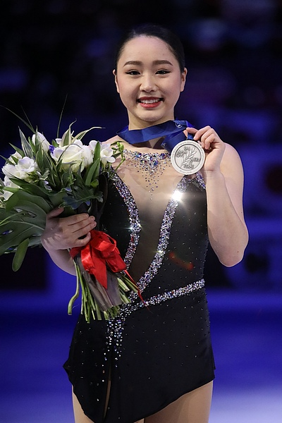 Photos – World Championships 2018 – Ladies (Medalists)